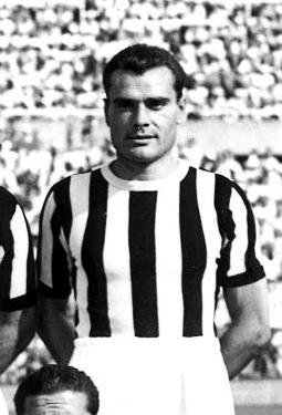 Turin, Communal Stadium, September 9, 1951. Italian footballer Enrico Boniforti with Juventus FC in the Italian Championship 1951–52 Serie A.